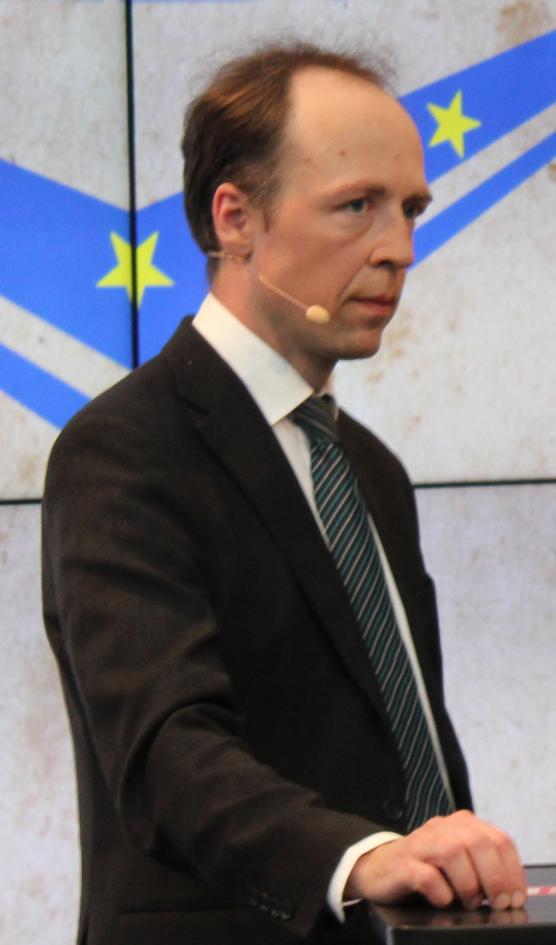 Jussi Halla-aho (Finns Party) in Helsinki in 2014.